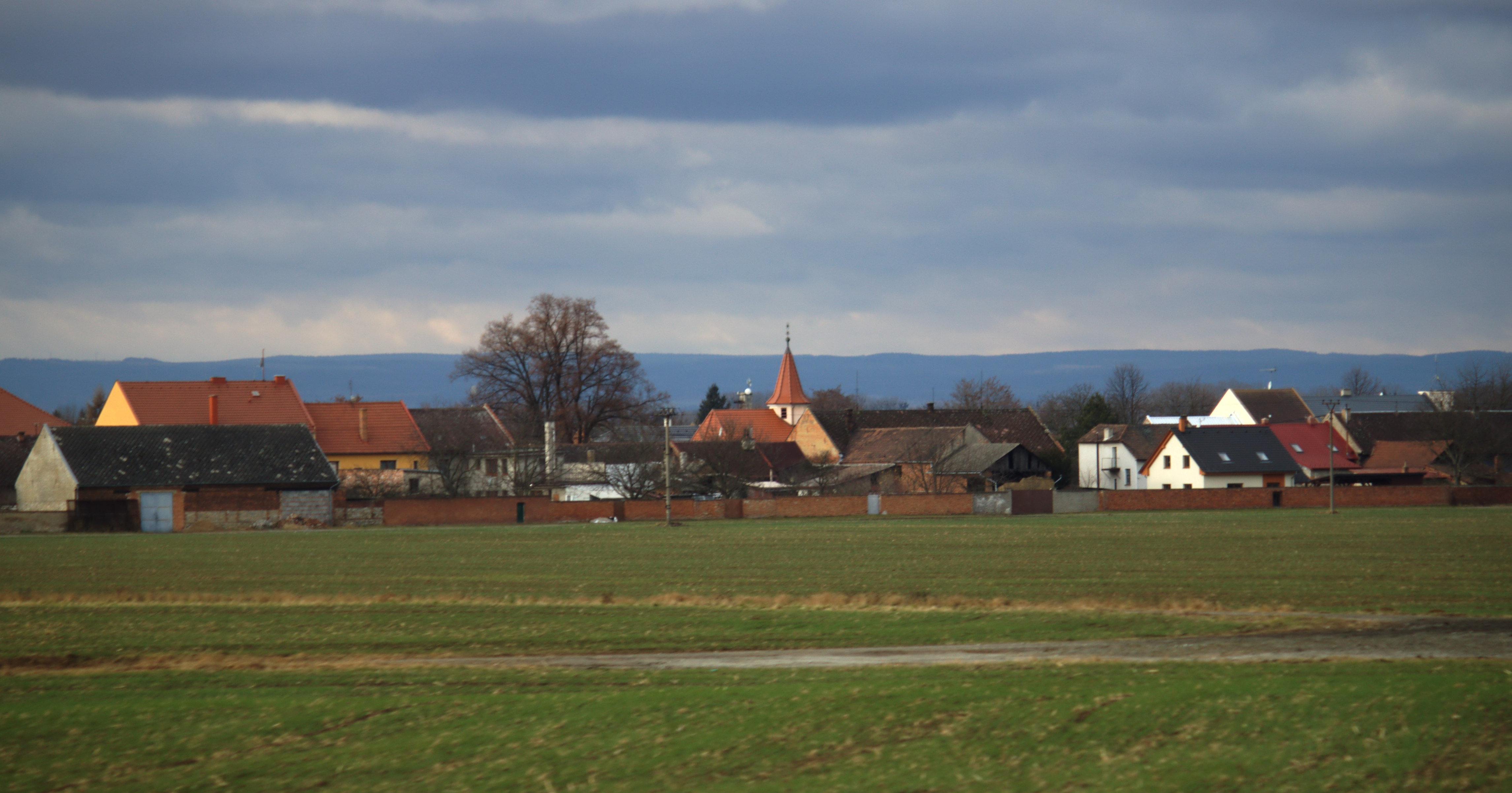 The village of Císařov close to Brodek u Přerova seen from a passing train